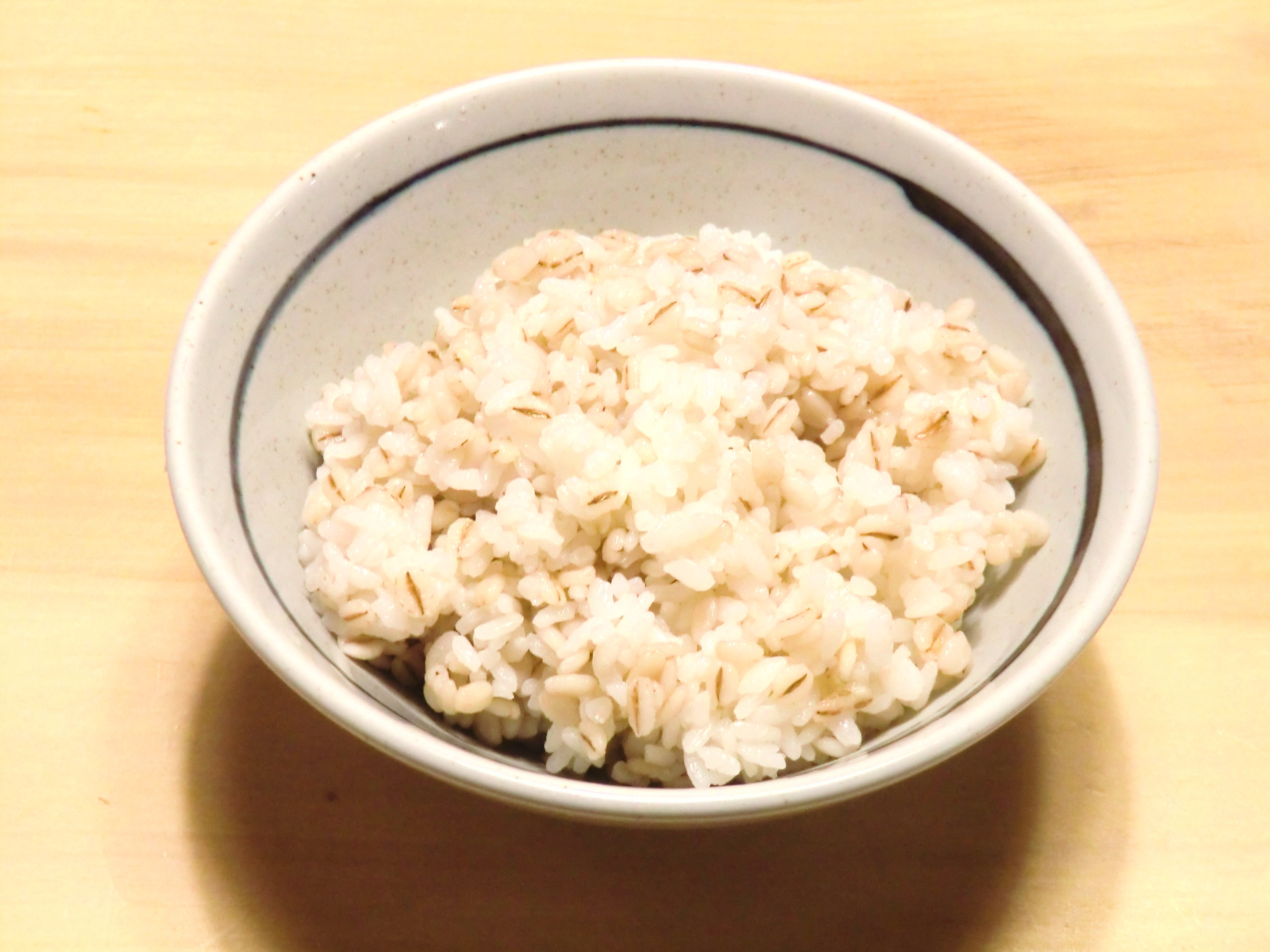 Mugimeshi (麦飯: rice cooked with barley)